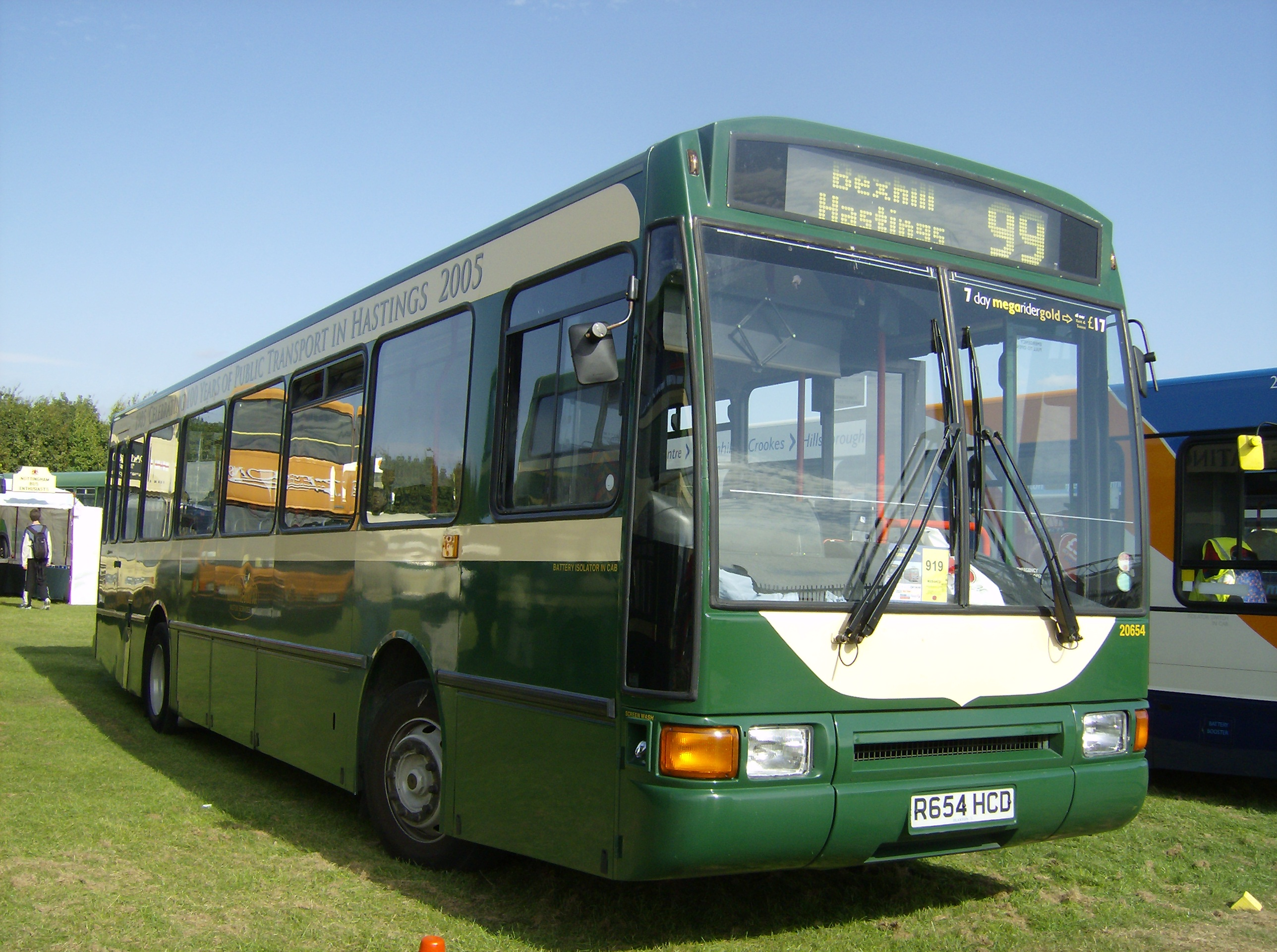 Stagecoach in Hastings bus 20654 (reg. R654 HCD), a 1998 Volvo B10M with Plaxton Paladin bodywork, pictured at Showbus 2007. It's been painted in a special livery - the original dark green and cream of Maidstone & District Motor Services, complete with fleetnames, plus the roofline message 1905 Celebrating 100 Years of Public Transport in Hastings 2005. 1905 marks the date of the first tram service in the town. M&D was formed in 1911 and had expanded to reach Hastings by 1914. In 1980 a separate 'Hastings & District' identity was adopted for M&D's operations in the town, becoming a separate company in 1983, being eventually absorbed into the Stagecoach Group (with the remainder of M&D becoming part of Arriva).